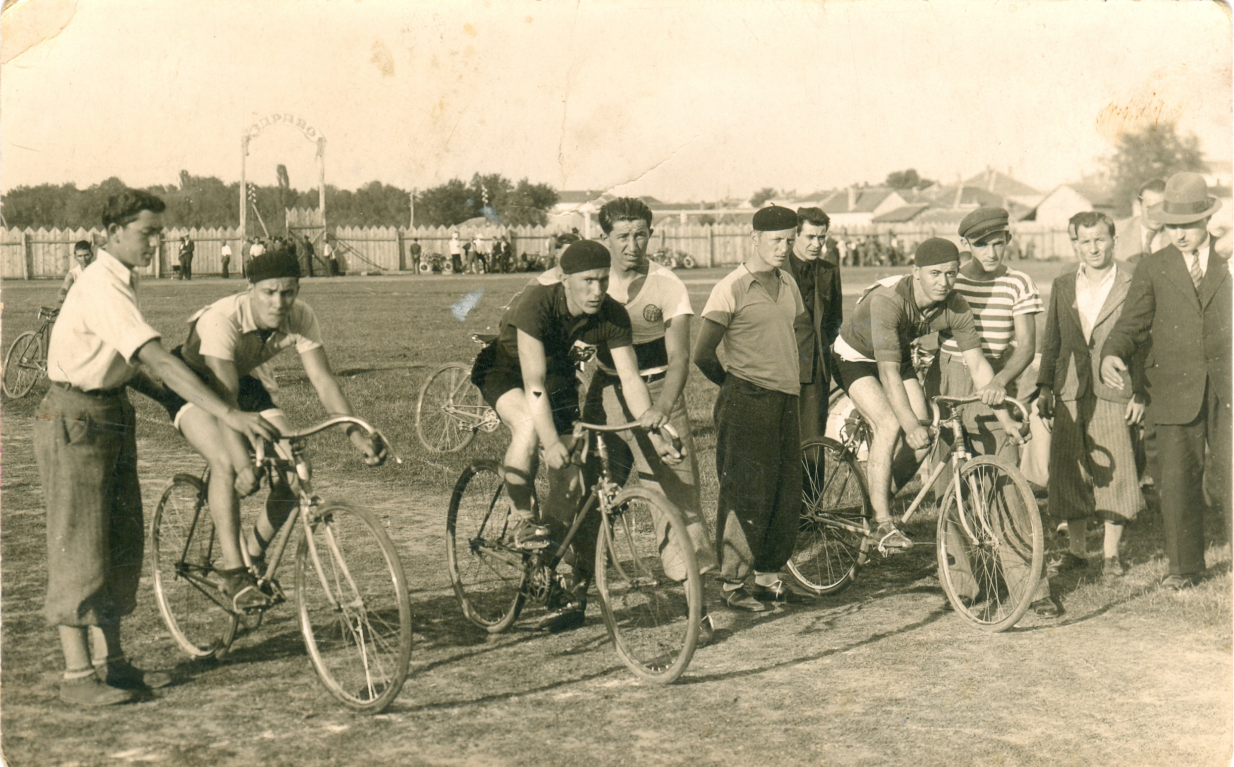 Bike race in 1935. Srpski (latinica): Biciklistička trka 1935. godine